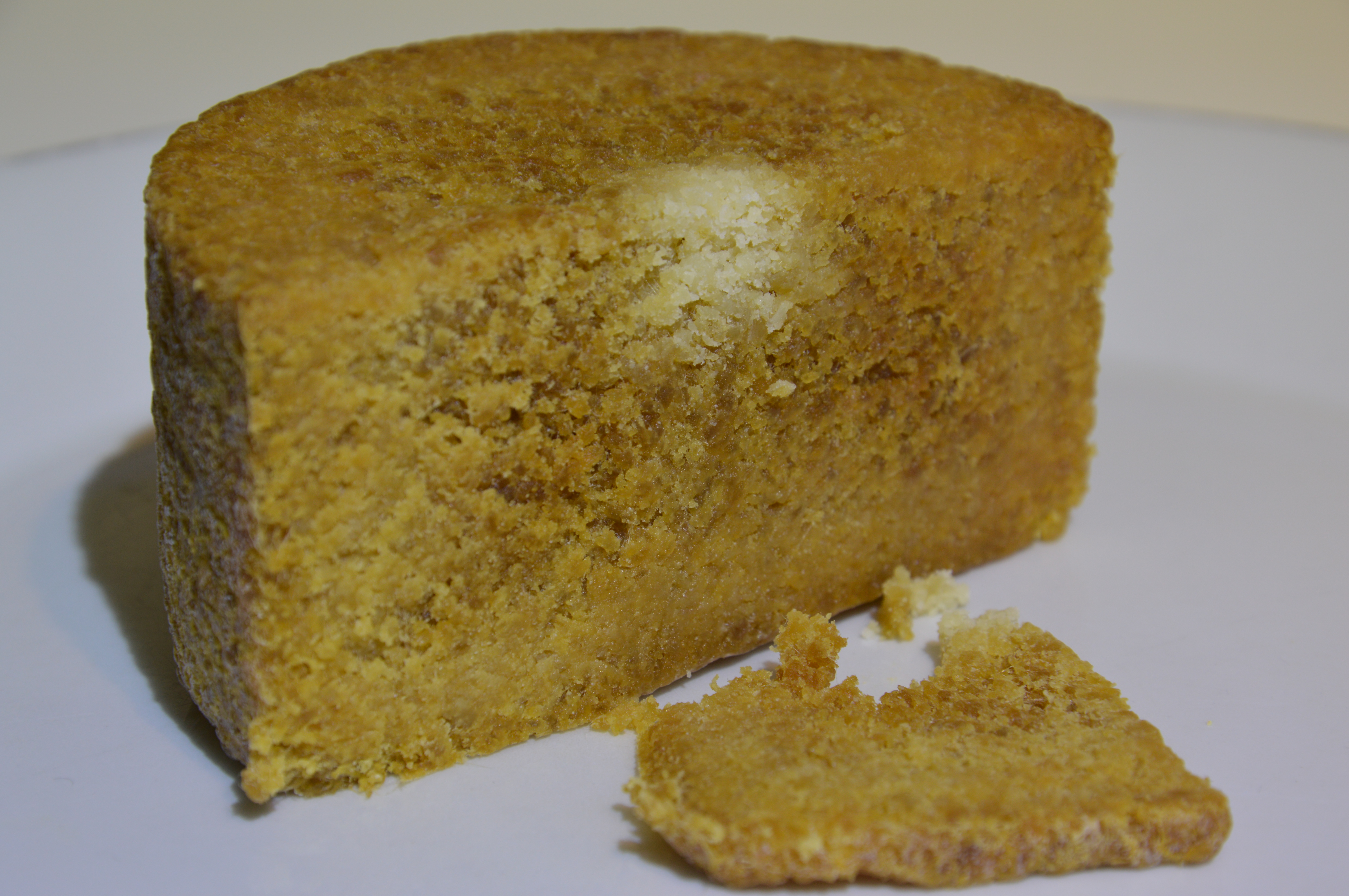 Gamalost (also Gammelost, Gammalost), which translates as "old cheese", is a pungent traditional Norwegian cheese.